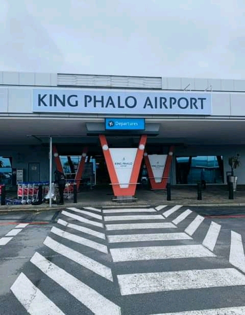 Its a short walk to the airport building - no busses here!